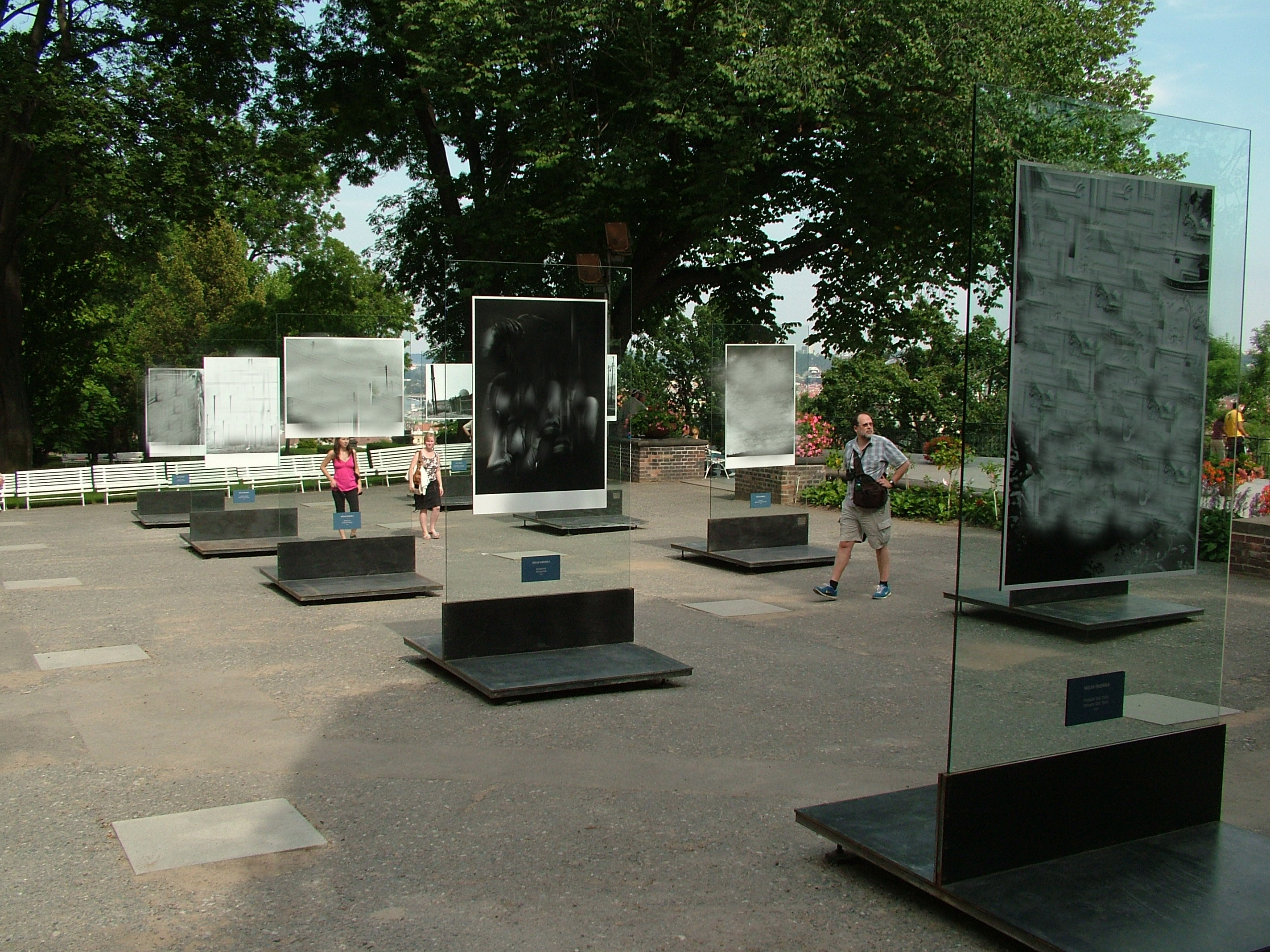 Vaclav Chochola´s exhibition in Prague Česky: Výstava Václava Chocholy na Pražském hradě, dne 2. srpna 2008. Vystavené fotografie Václava Chocholy byly rozmazány, aby neporušovaly autorská práva autora.